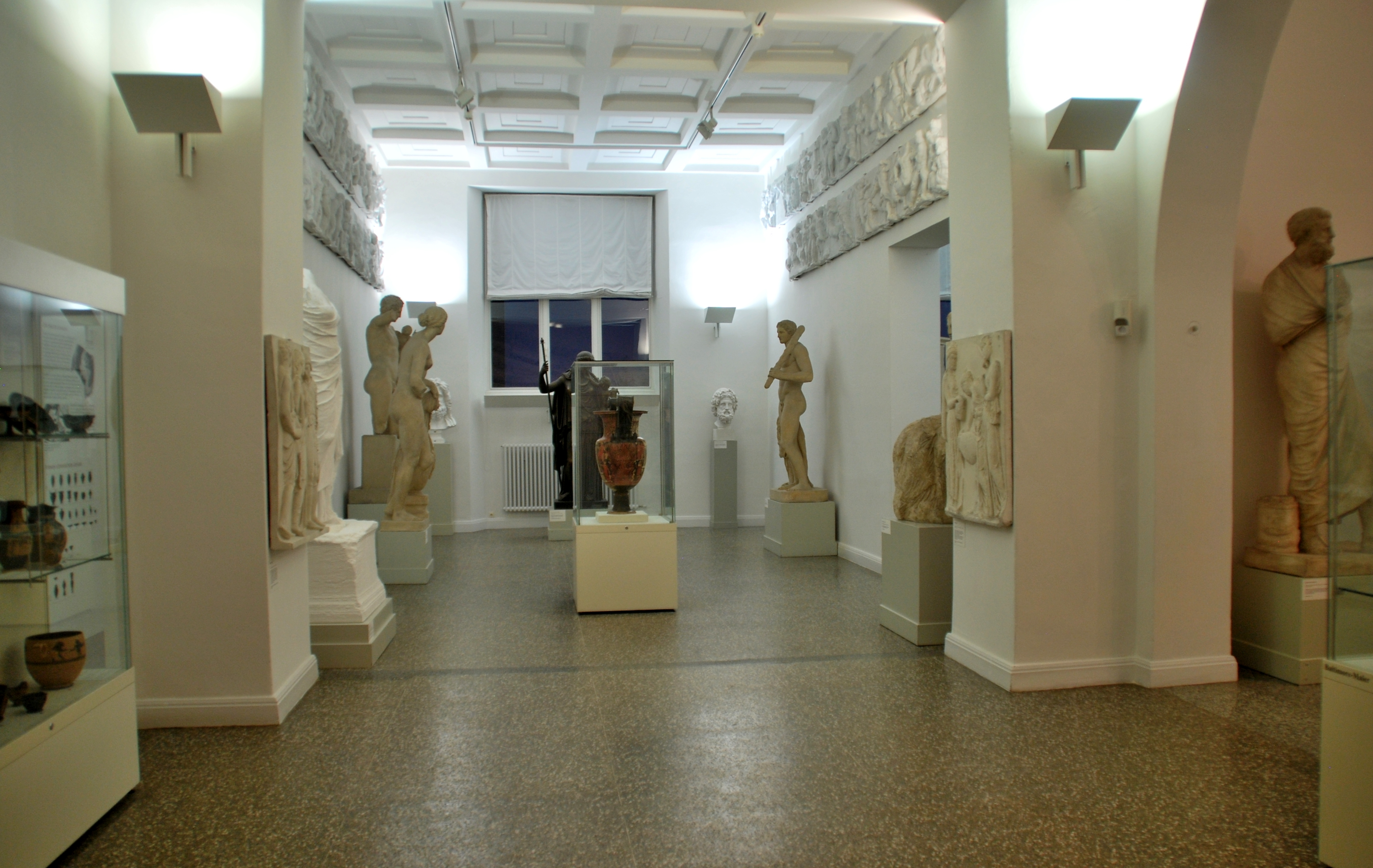 Exhebition views of the Antikensammlung Kiel.